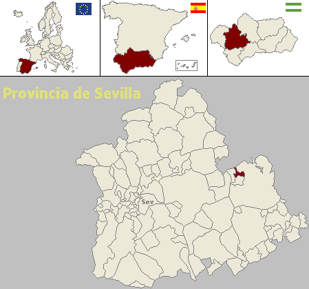 Cañada Rosal